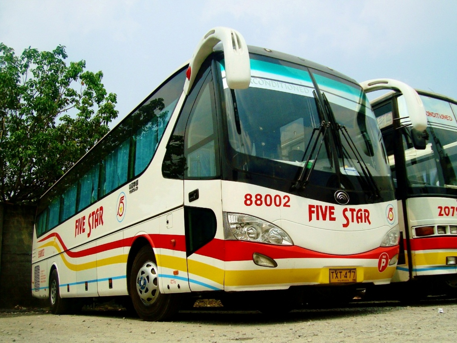 Shot of A Five Star Bus Company Unit #22002 (Yutong ZK6119HA) in their Motorpool at EDSA